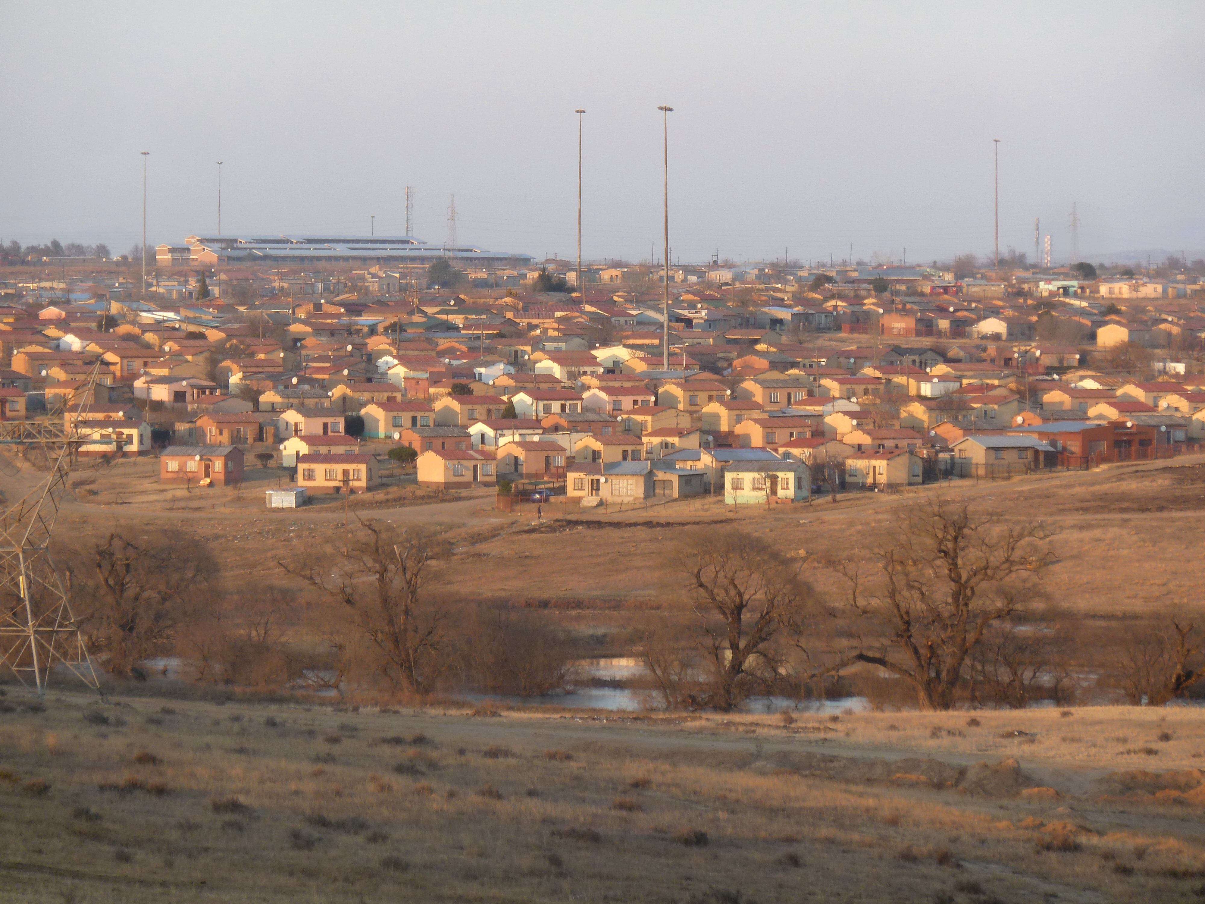 Early morning view on Bohlokong and Thorisong townships in Bethlehem, Free State, South Africa. Bethlehem Comprehensive Secondary School, in Thorisong township, can be seen at top left. The Liebenbergsvlei river is in the foreground (downstream of the Saulspoort dam), a conduit for water from the Lesotho Highlands Water Project.